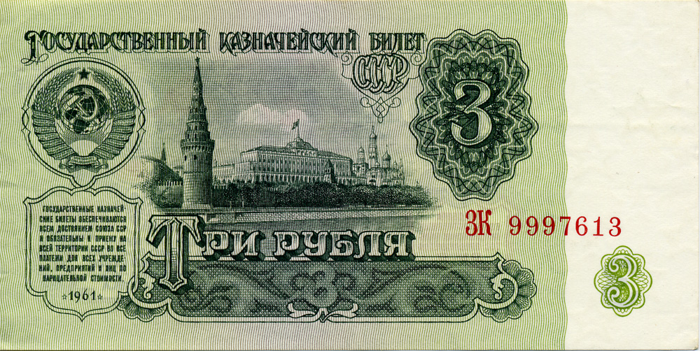 1961 Soviet Union 3 rubles bill. Obverse. Non-natural colours, very contrasted. See also other side Image:Soviet_Union-1961-Bill-3-Reverse.jpg